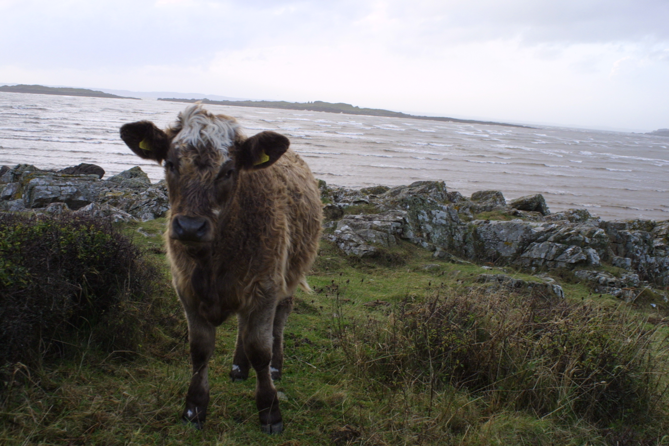 Murray's Isle and Wigtown Bay looking from Carrick Sands